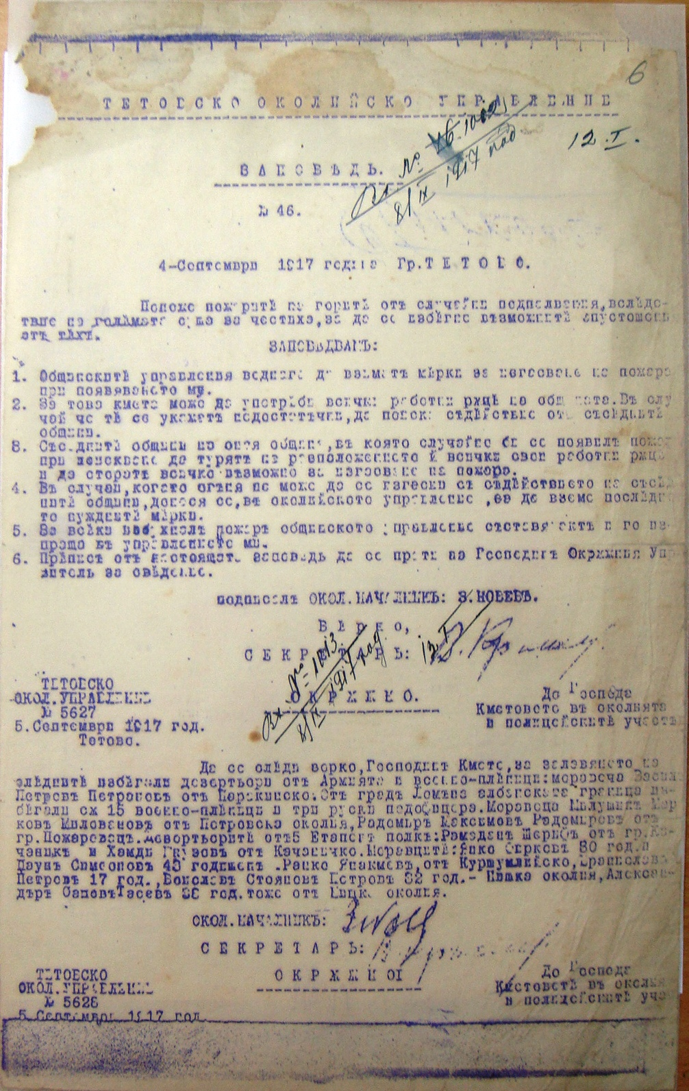 Order from the Tetovo district administration to take measures against fires. (September 4, 1917) This media file is produced by Wikipedian in Residence in Category:Wikipedian in Residence at DARM in 2016.